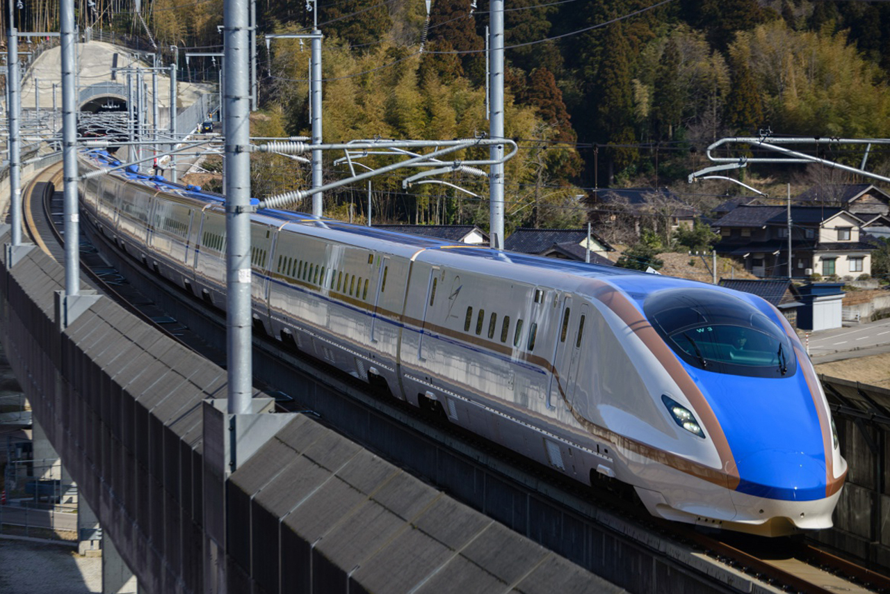 JR West W7 series shinkansen set W3 on a public preview run on the Hokuriku Shinkansen near Sugise Tunnel between Shin-Takaoka and Kanazawa